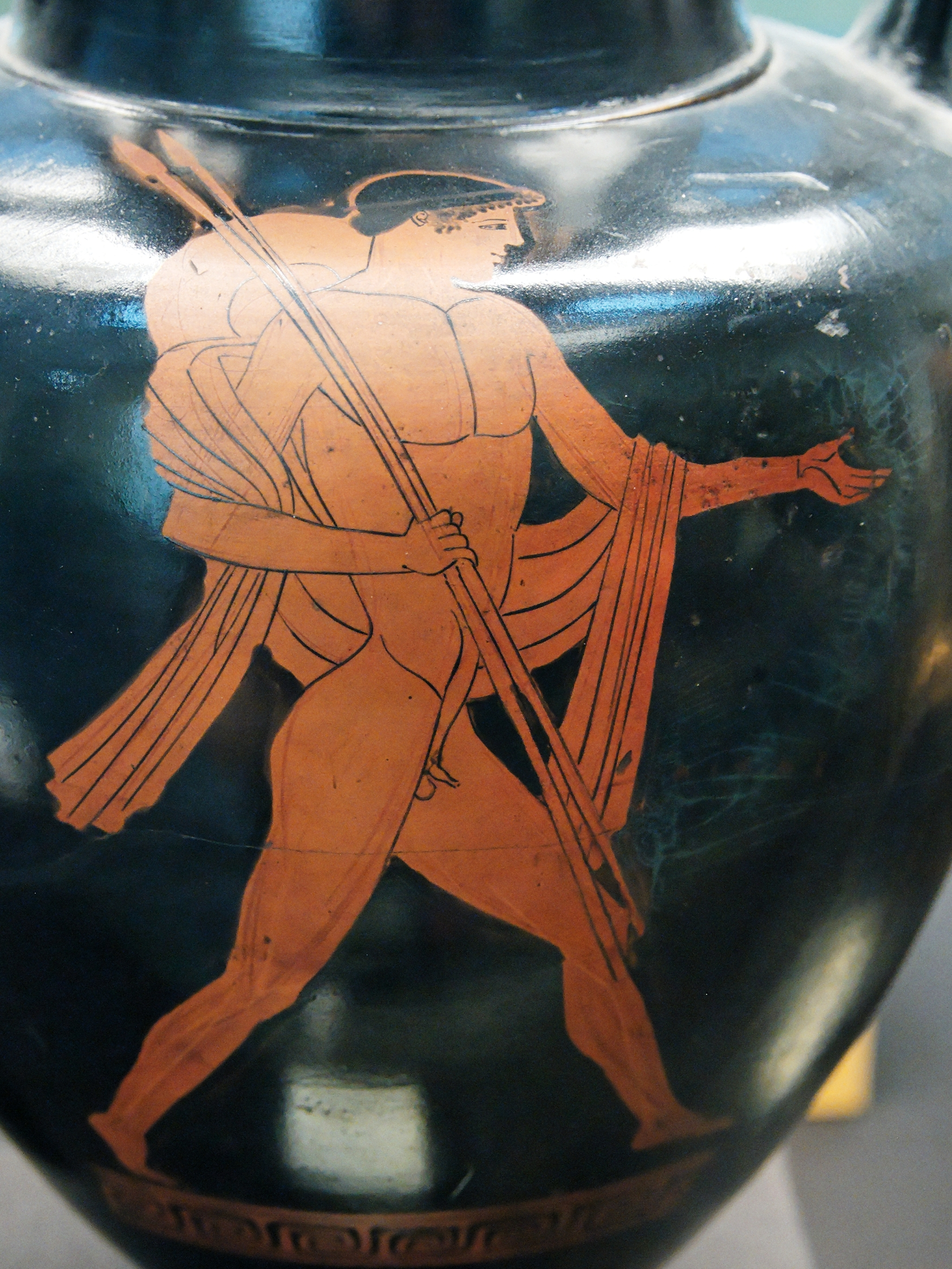 Ephebe wearing a red fillet in his hair, a petasos around his neck and a himation in the crook of his arm, holding two spears and a sword. Kalos inscription in Ionic alphabet. Side A of an Attic red-figure Nolan amphora.